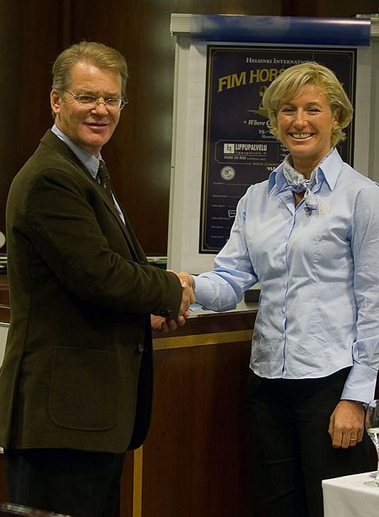 Tom Gordin with Jessica Kuerten